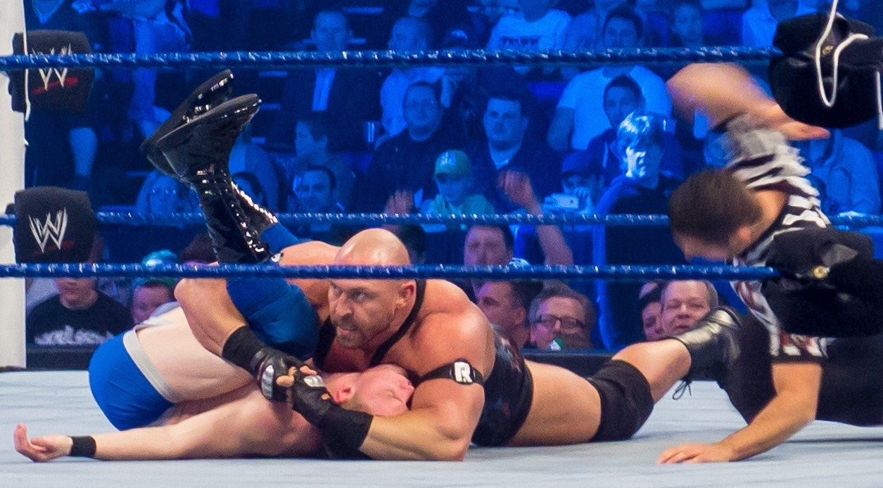 Ryback defeats a jobber during a WWE house show on April 17, 2012 in London.